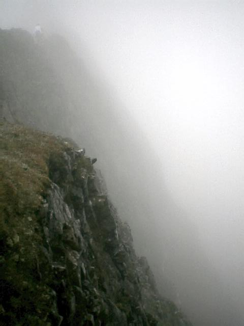 my photo of Crib